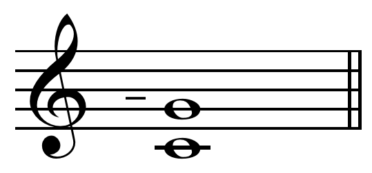 Wolf fifth on C = G- (Ben Johnston's notation). 40:27 = 680.45 cents. Limit: 5-limit.